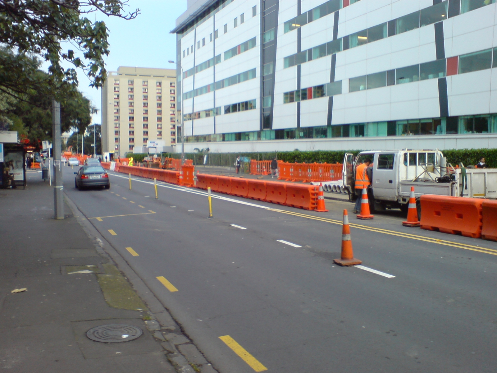 Works have begun on the Central Connector, the new bus corridor between the Auckland CBD and Newmarket in Auckland City, New Zealand. Looking west just outside the Auckland Hospital.